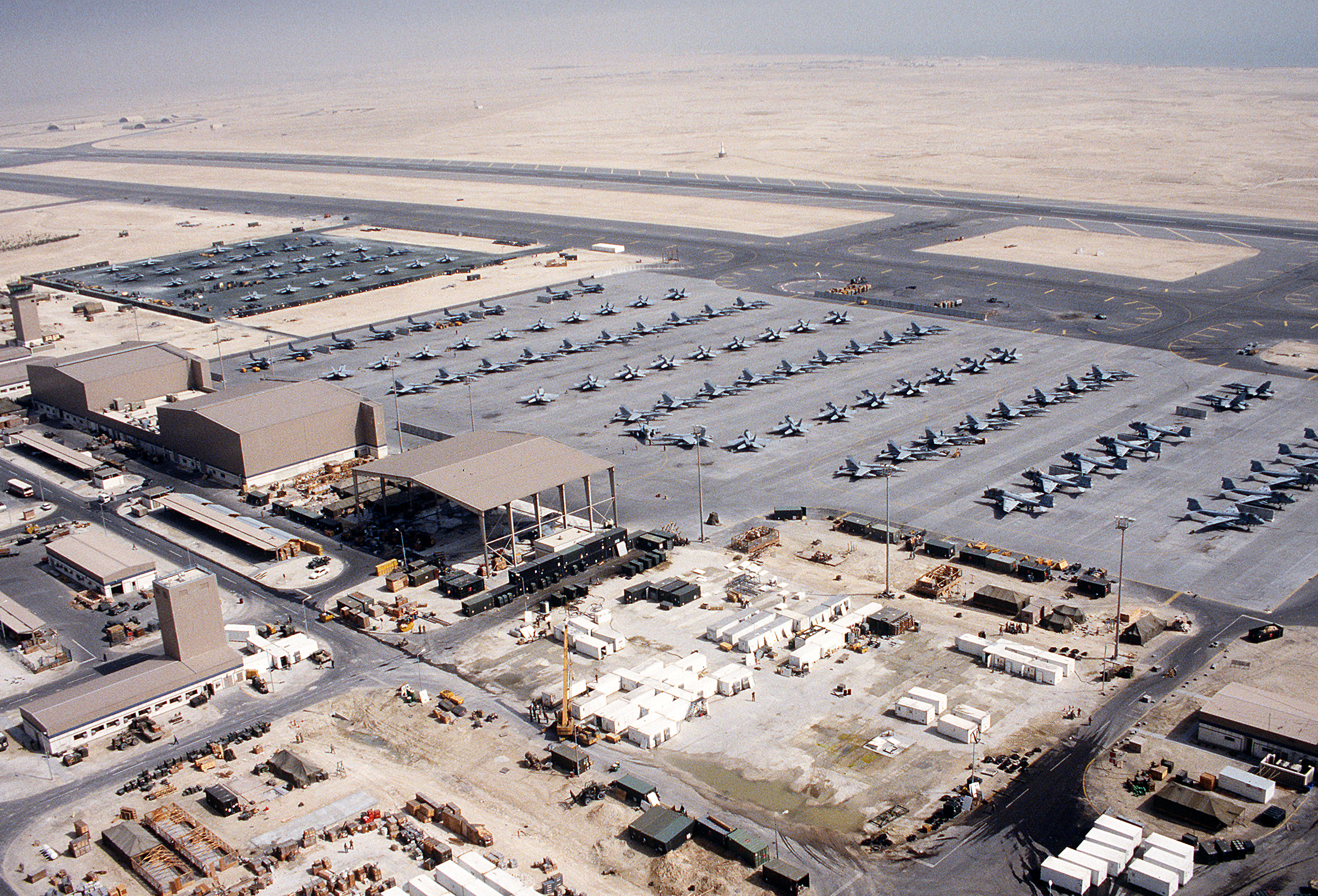 Various aircraft of the U.S. Marine Corps Marine Aircraft Group 11, 3rd Marine Aircraft Wing, line the parking area at Shaikh Isa airfield, Bahrain, on 19 March 1991. Some 81 McDonnell Douglas F/A-18 Hornet fighters, 17 Grumman A-6E Intruder bombers, and 10 Grumman EA-6B Prowler ECM aircraft are visible. The following squadrons equipped with the above aircraft were operated by MAG-11 during the 1991 Gulf War: VMFA-314, VMFA-333, VMFA-451 (each 12 F/A-18A); VMFA-212, VMFA-232, VMFA-235 (each 12 F/A-18C); VMFA(AW)-121 (12 two-seat F/A-18D); VMA(AW)-224, VMA(AW)-533 (each 10 A-6E); VMAQ-2 (12 EA-6B).